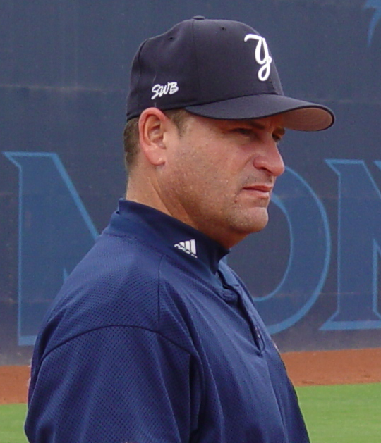 Description Scranton/Wilkes-Barre Yankees pitching coach Rafael Chaves LocationDurham Bulls Athletic Park, Durham, North CarolinaDate12 April 2007SourceOwn workAuthorBrad E. Williams (talk) 21:41, 13 April 2008 . . Brad E. Williams . . 540×629 (443 KB) Scranton/Wilkes-Barre Yankees pitching coach Rafael Chaves